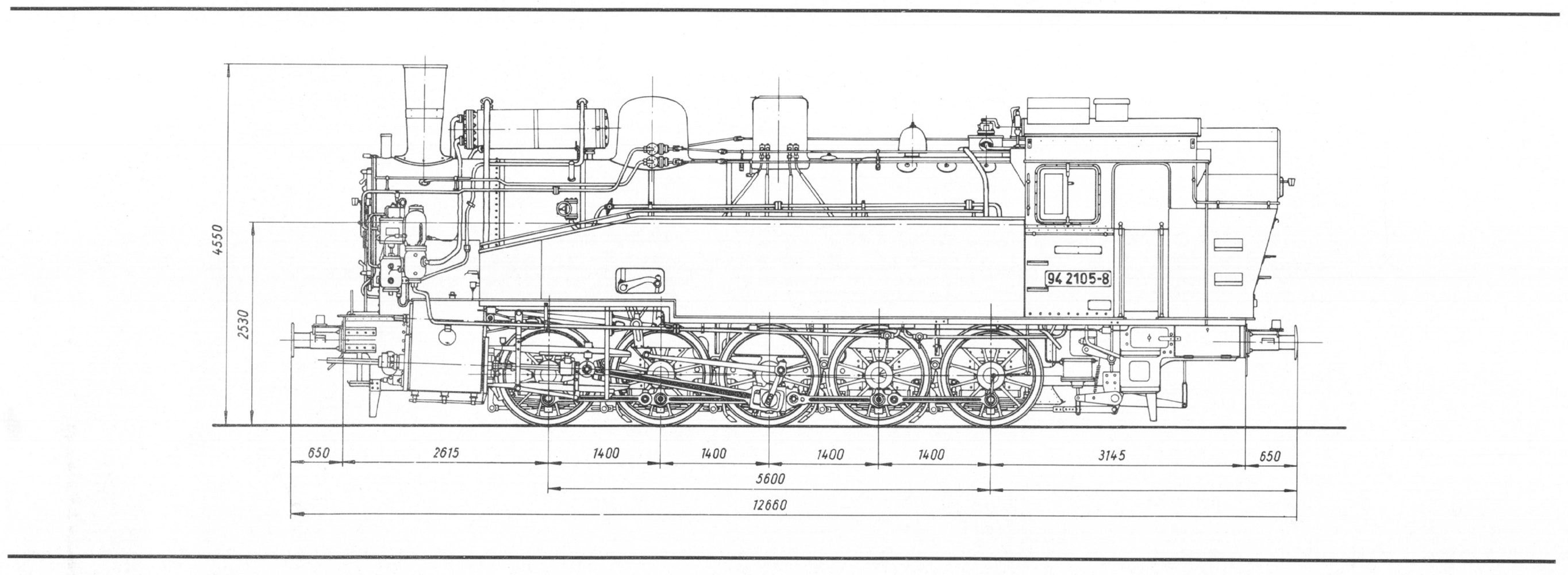 Sectional drawing of the steam locomotive number 94 2105-8 of the Deutsche Reichsbahn